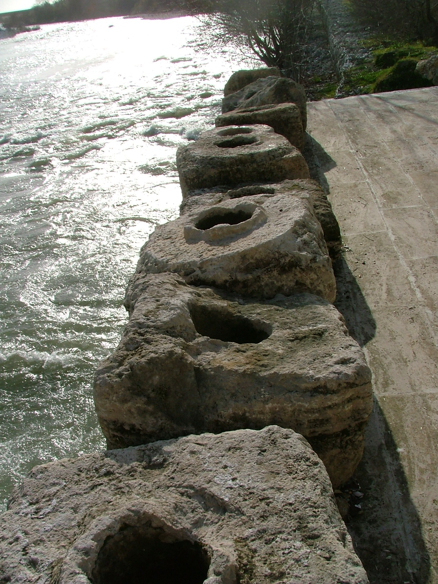 Duct stones of the ancient Aspendos aqueduct lined up in the vicinity of the Eurymedon Bridge (Köprüpazar Köprüsü) near Aspendos, Pamphylia, Turkey. The stones were reused for the building of the Roman bridge and its Seljuk successor.